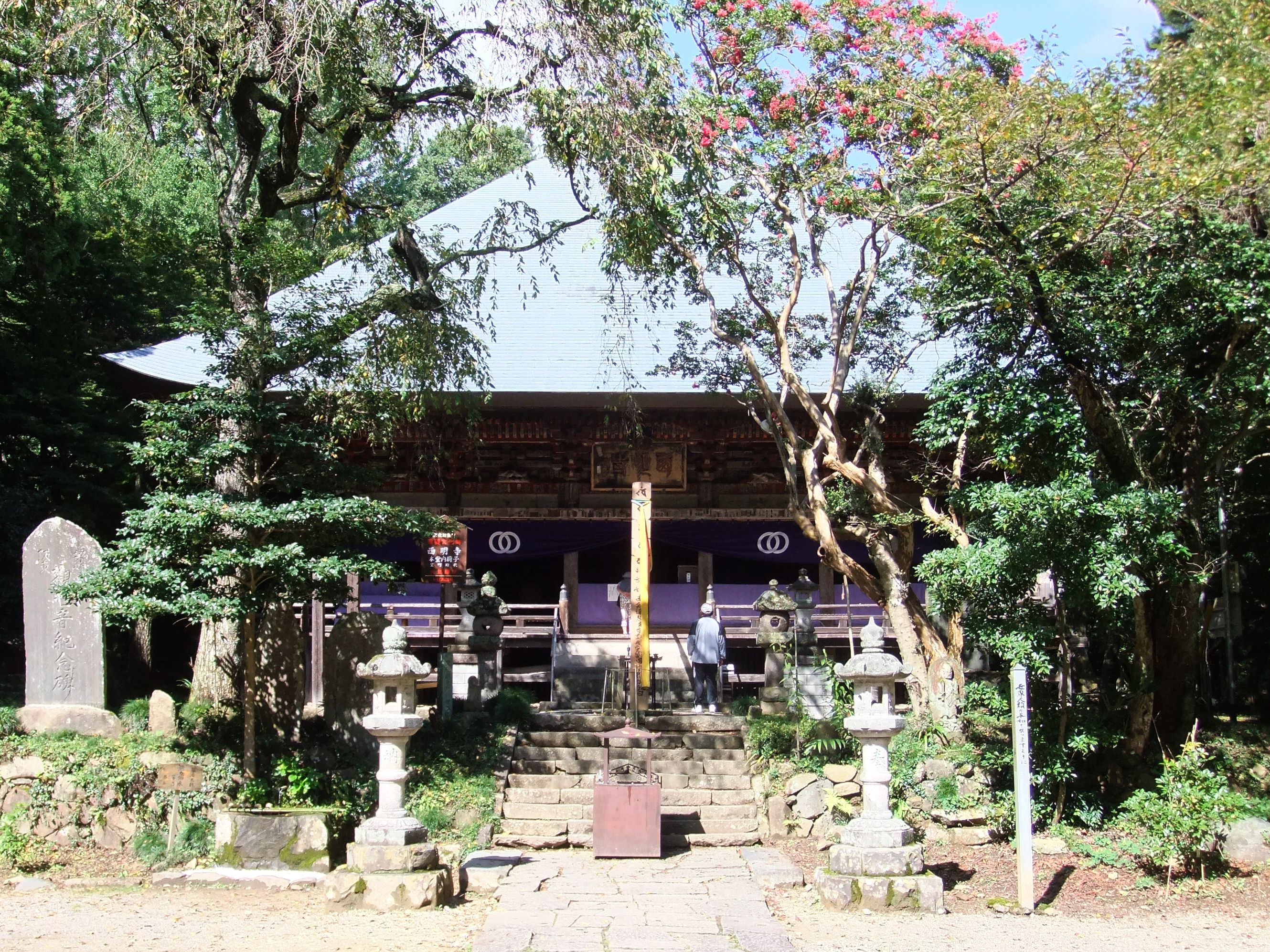 Saimyō-ji temple in Mashiko, Tochigi